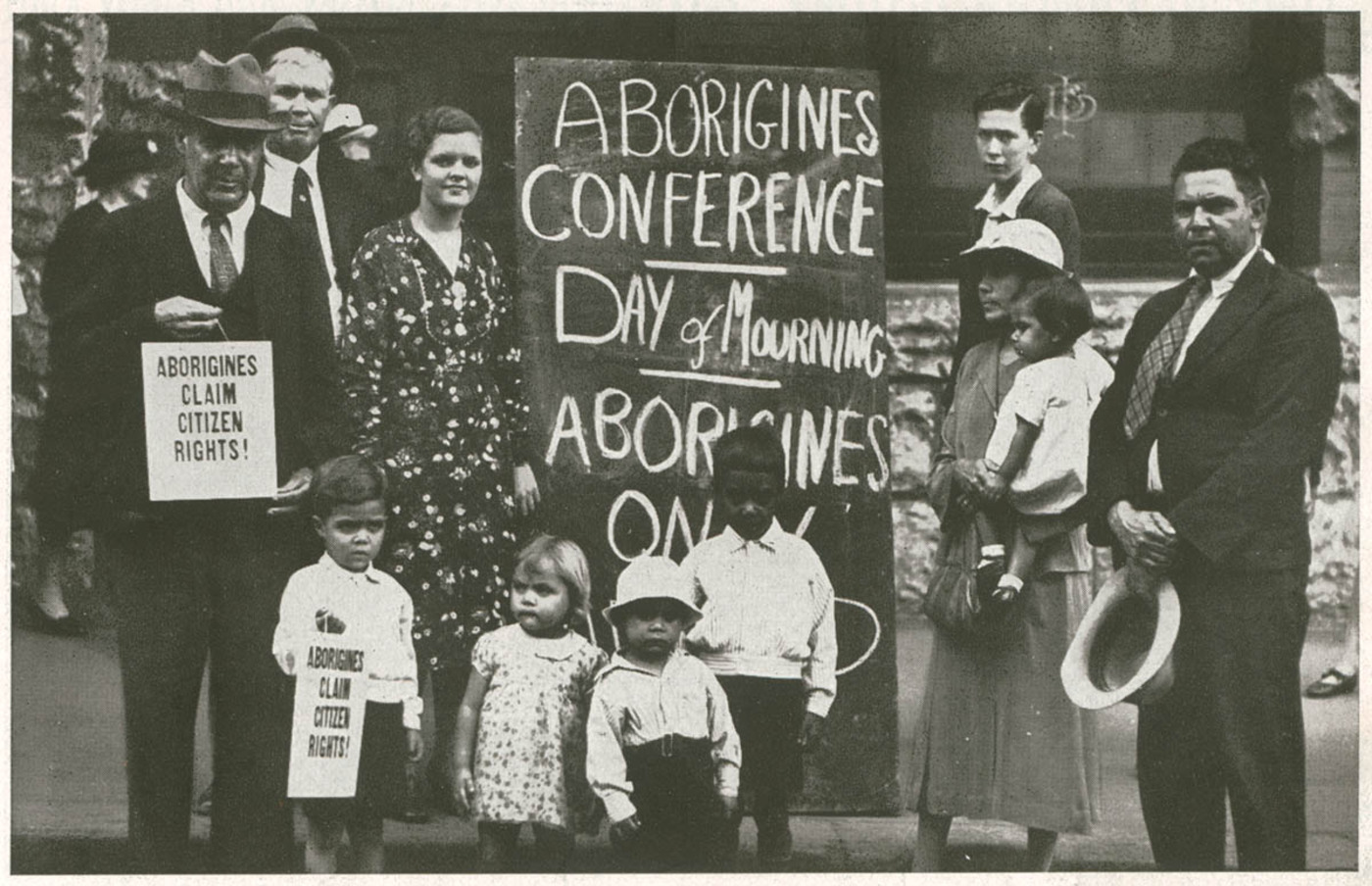 A large blackboard displayed outside the hall (Australia Hall) proclaims, "Day of Mourning". Leaflets warned that, "Aborigines and persons of Aboriginal blood only are invited to attend". At 5 o'clock in the afternoon resolution of indignation, protest, was moved, passed (sic). This image is part of the collections of the State Library of NSW and has been used with permission. The State Library’s Flickr Commons channel can be accessed via the following link